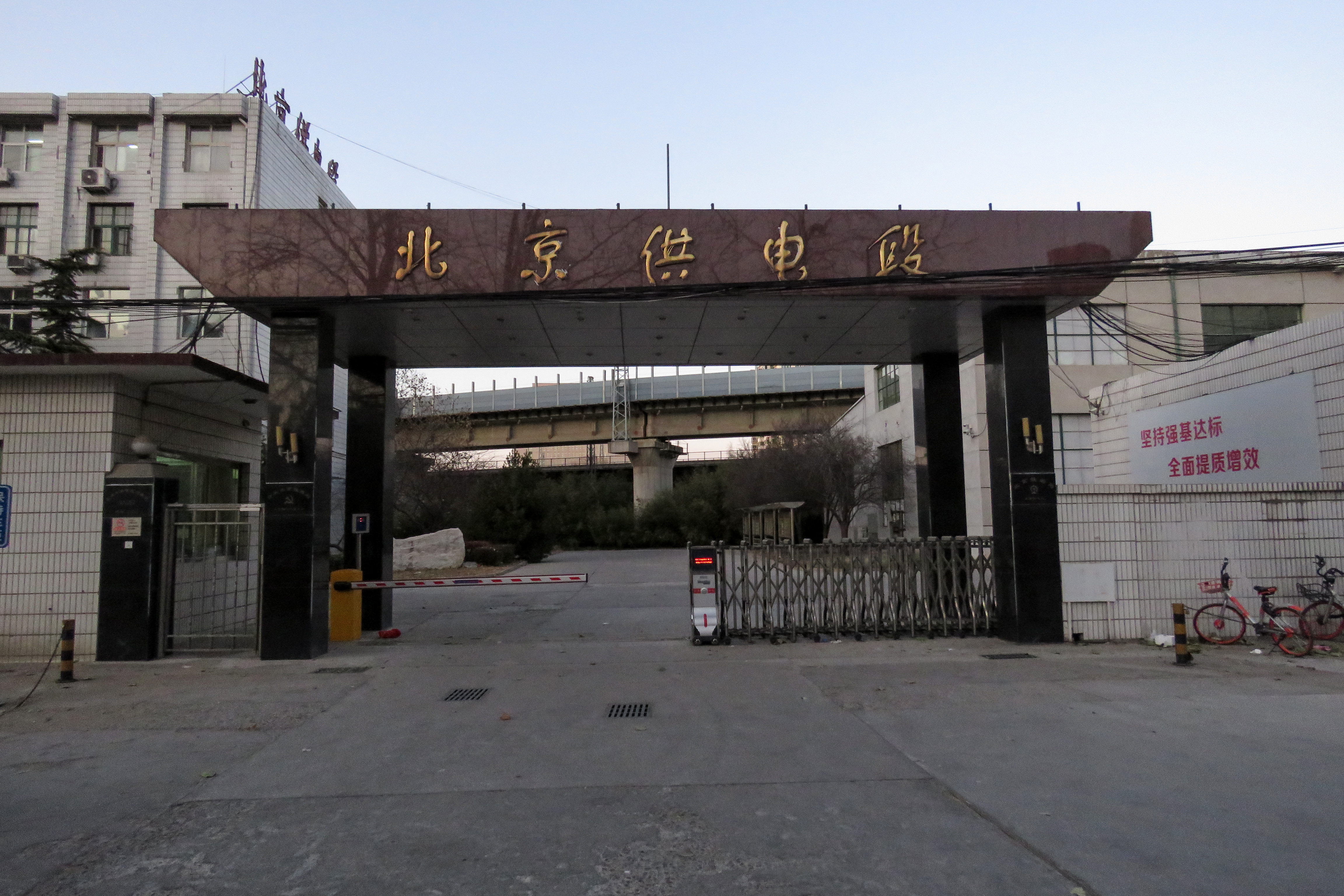 Its parent corporation is now called CR Beijing.